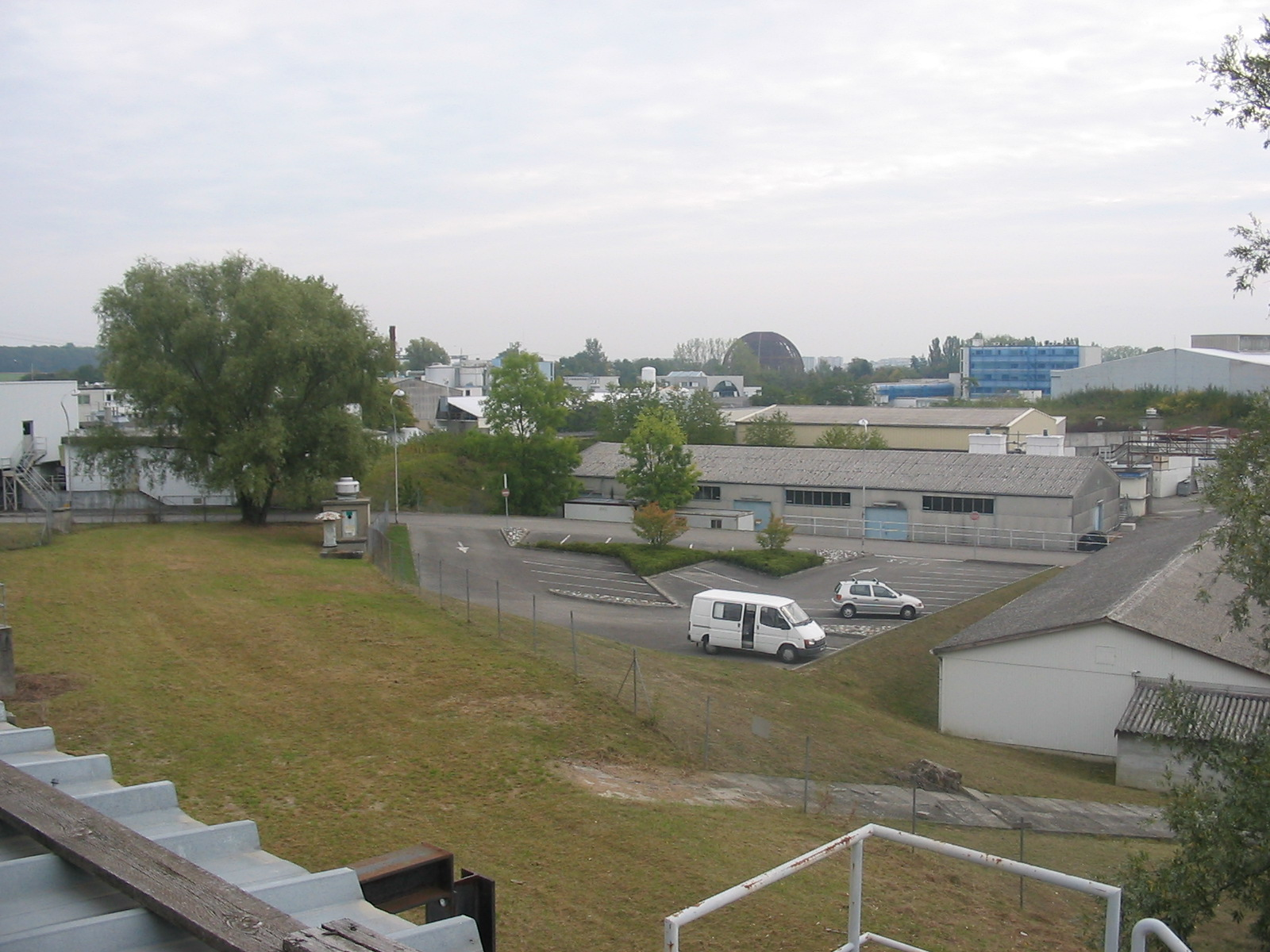 The surface above the Proton Synchrotron particle accelerator at CERN. With more than 45 years to be evened out, have buildings built around it, etc. the earthen ring-shaped hill containin the accelerator is not completely obvious--but it can be seen curving around on the left side of the image.